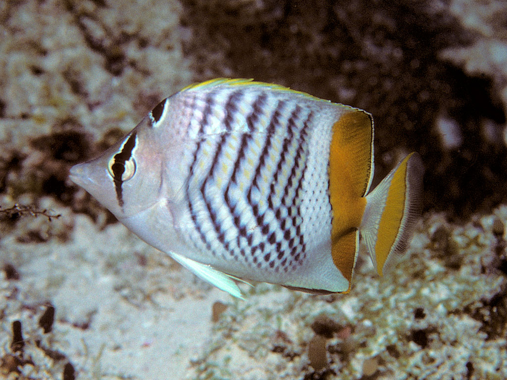 Chaetodon madagaskariensis, Seychelles butterflyfish. Underwater photograph, Pemba island, Tanzania, Africa.